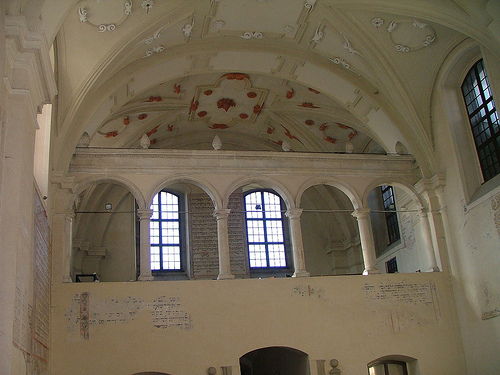 Isaac Synagogue in Kraków